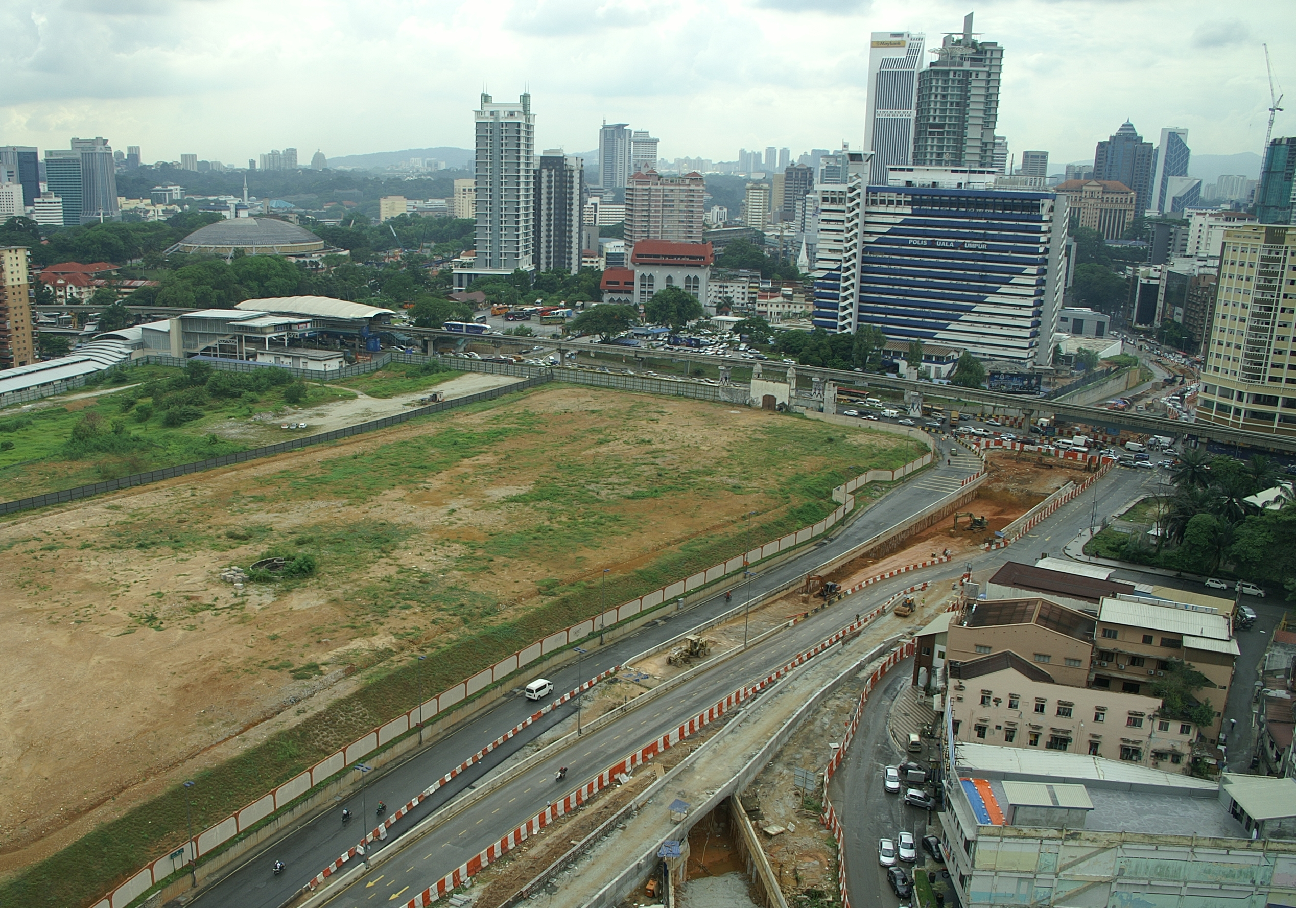 Area of the former Pudu Prison in June 2013. Only the entrance gate and an old water fountain remain.